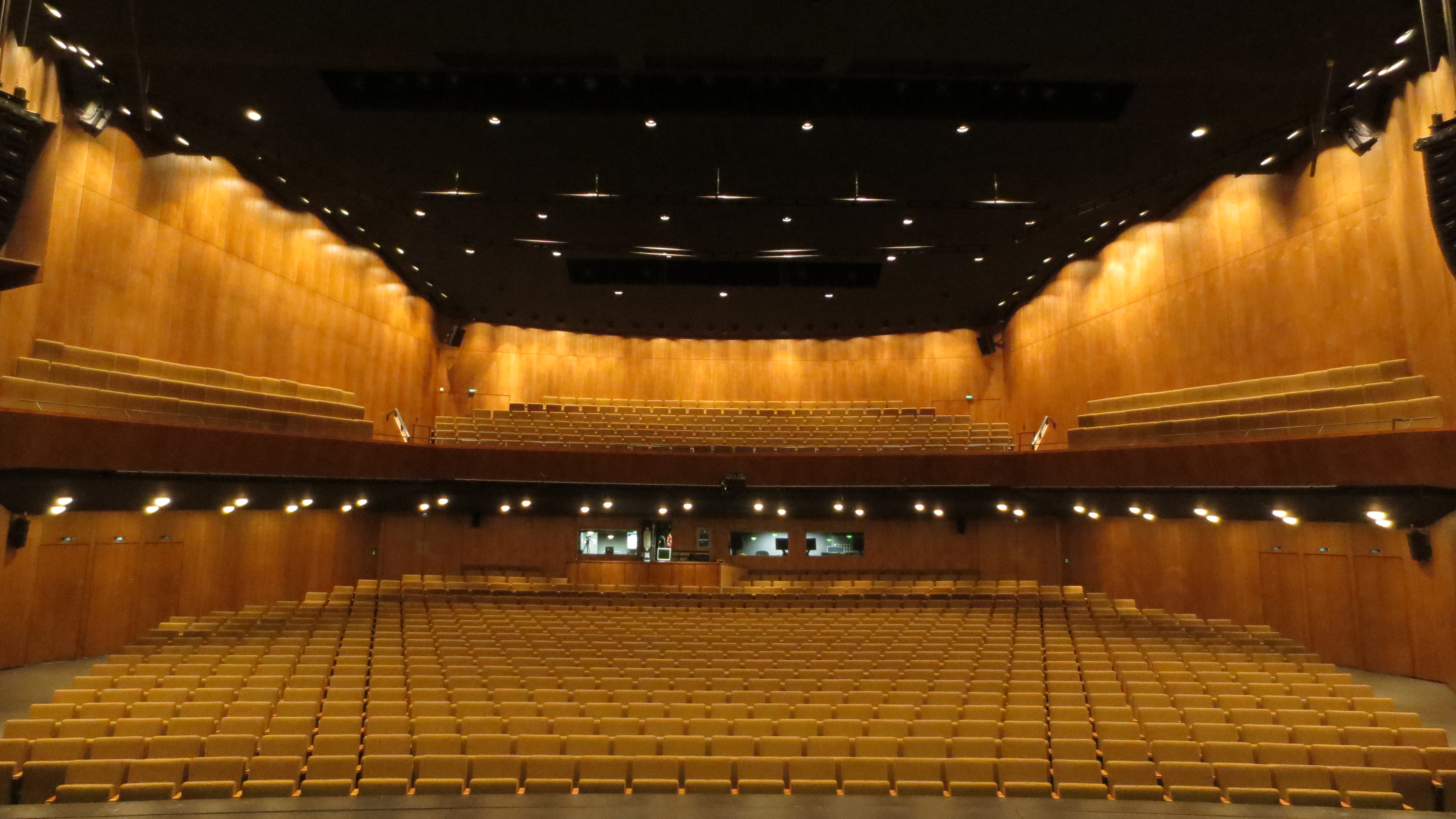 Haus der Berliner Festspiele - Große Bühne - Schaperstraße - 16.09.2013.JPG